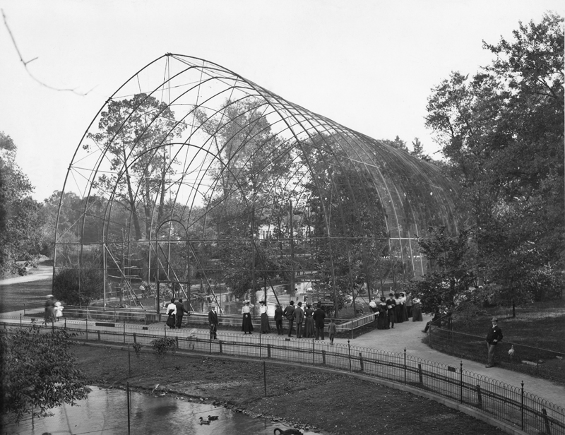 Visitors at the Atrium at the Bronx Zoo, 1905.